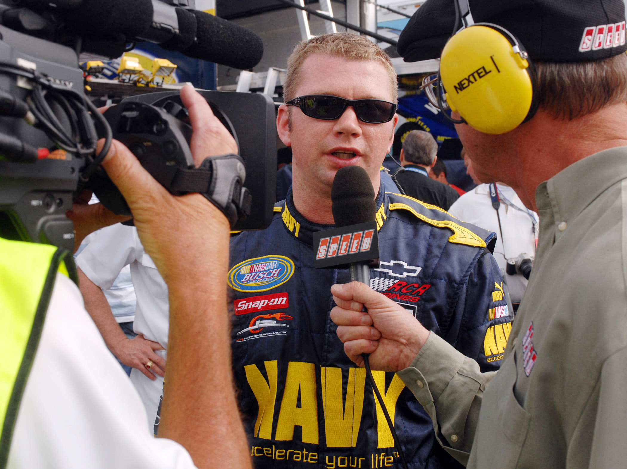 RICHMOND, Va. (May 4, 2007) - NASCAR Busch Series driver Shane Huffman, driver of the U.S. Navy #88 Chevy Monte Carlo, answers questions from Speed Channel's Dick Berggren after qualifying a career-high 3rd for the Circuit City 250 at Richmond International Raceway. U.S. Navy photo by Mass Communication Specialist 2nd Class Kristopher Wilson (RELEASED)